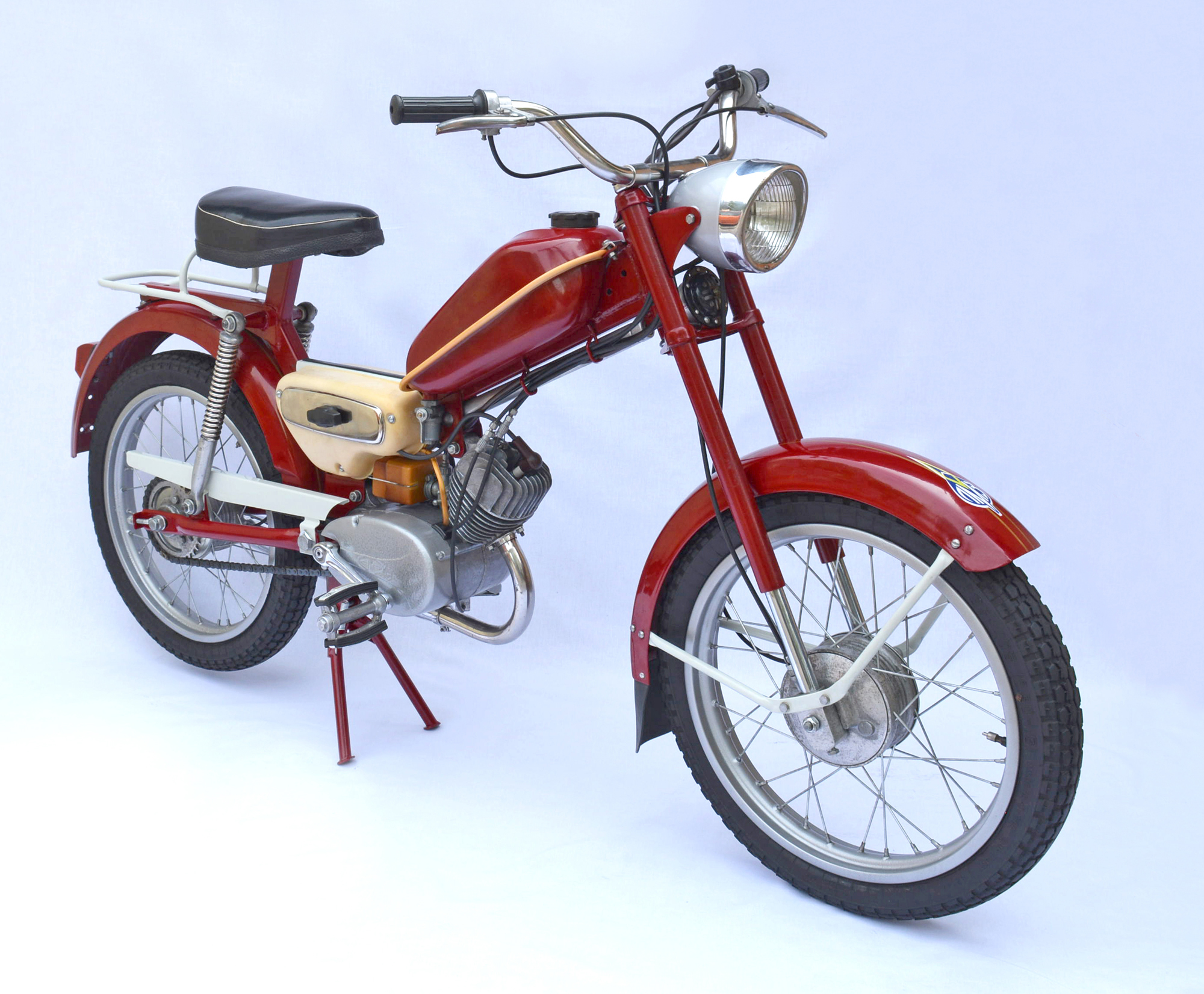 USSR moped Werhowina-3 (1970-1973)